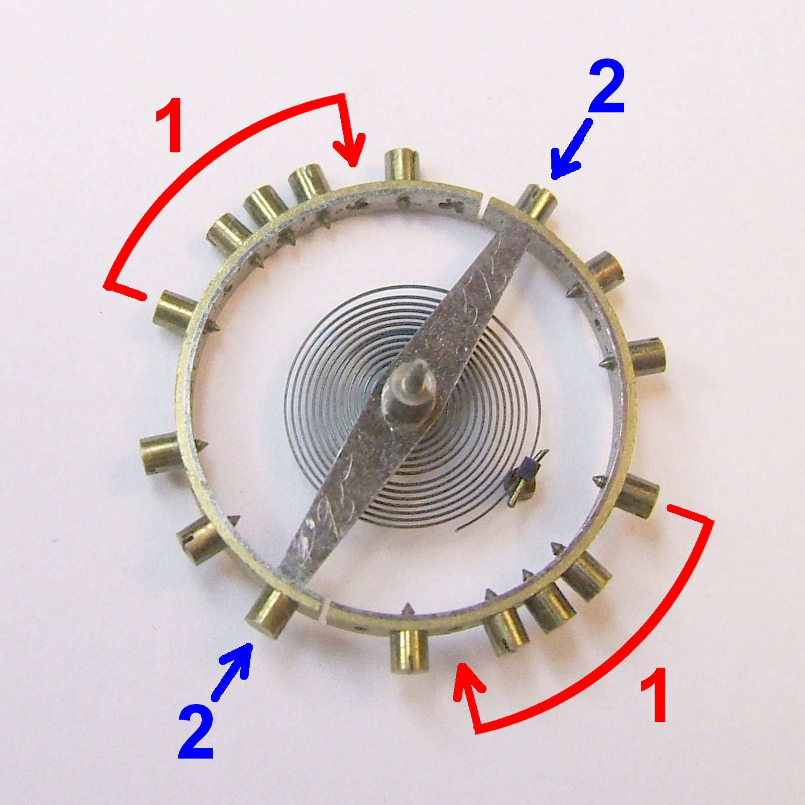 A bimetallic temperature compensated balance wheel from an early 1900s pocket watch. 1.8cm diameter. The rim is made of two bimetallic semicircular arms, composed of a layer of brass on the outside fused to a layer of steel on the inside. As the temperature increases, the arms bend slightly inward, causing the balance to oscillate faster, to compensate for the thermal loss of elasticity of the spring. Moving opposing pairs of weights nearer the ends of the arms (1) increases temperature compensation. Unscrewing pairs of weights near the spokes (2) slows the oscillation rate.